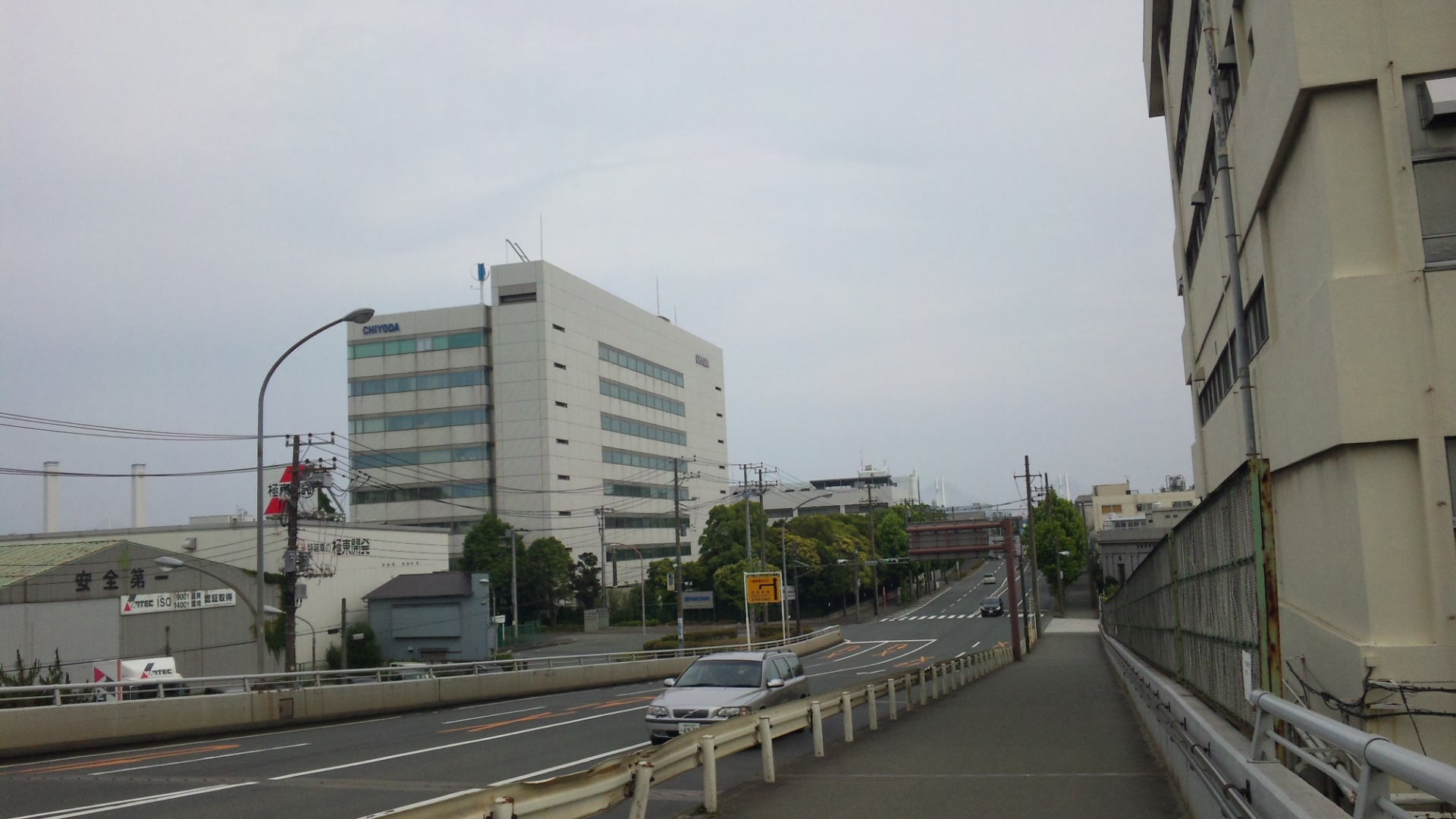 chiyodakakoukensetu